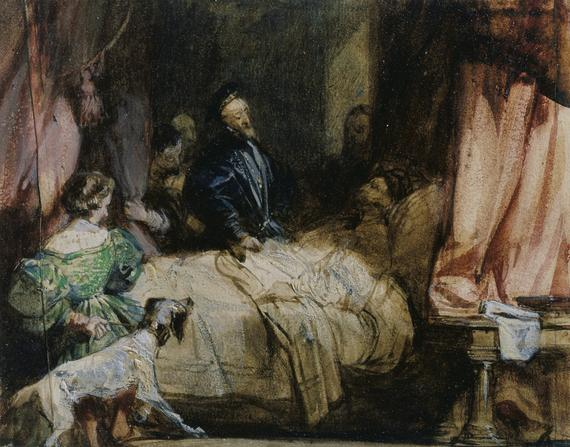 Charles V visits François Ier after the Battle of Pavia (watercolor on paper)